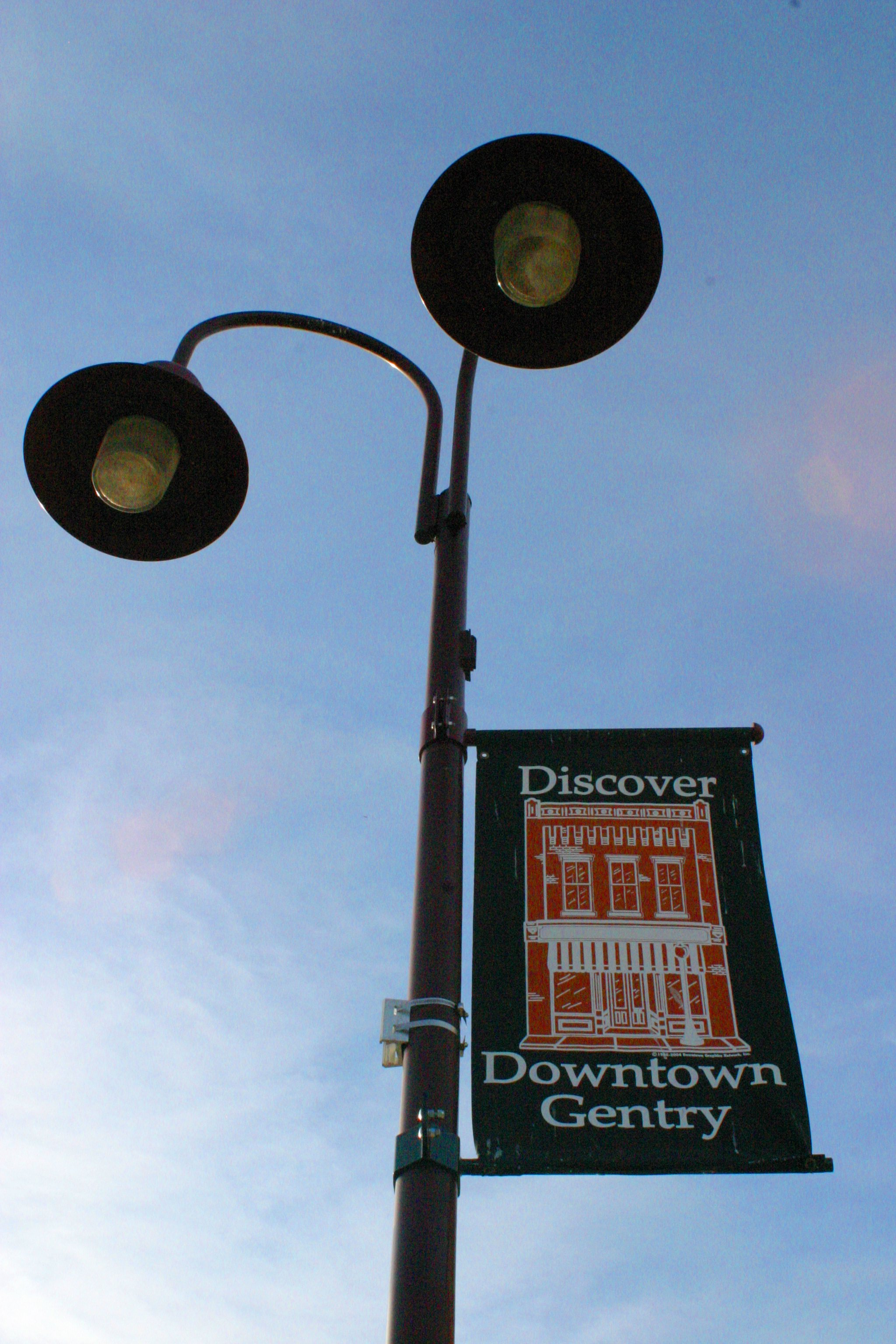 An oldish street lamppost in downtown Gentry, Arkansas